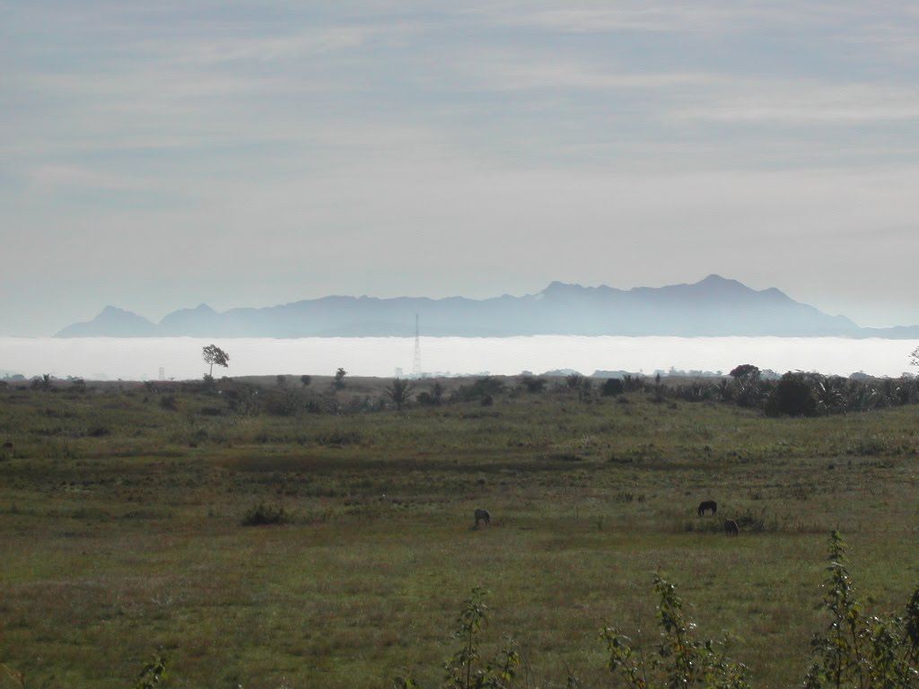 View from the rim view into the Iralalaro basin to Paitchau range over extensive grazing land north of Ili Lapa, suco Fuiloro, Lospalos